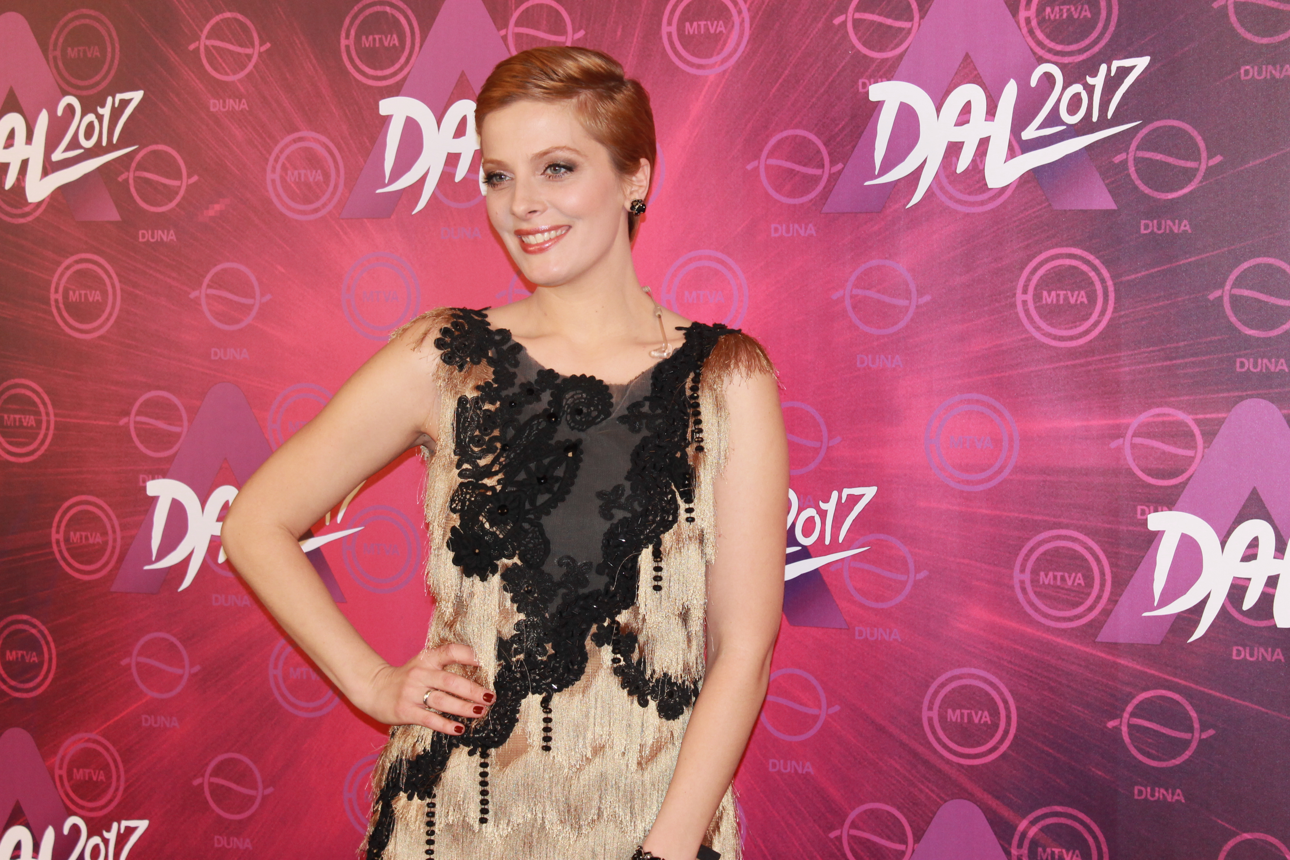 Csilla Tatár, host of A Dal 2017